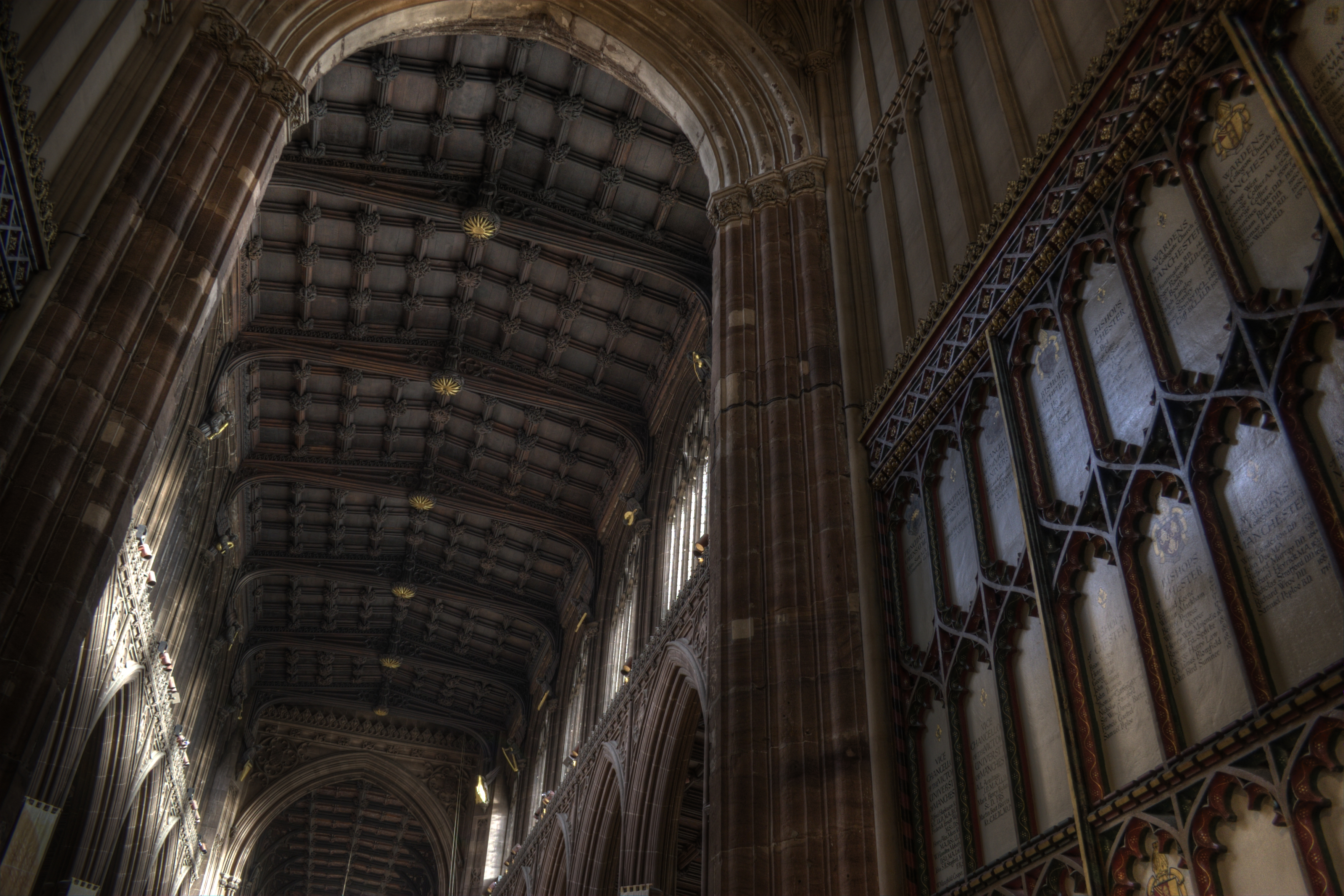 The ceiling of Manchester Cathedral